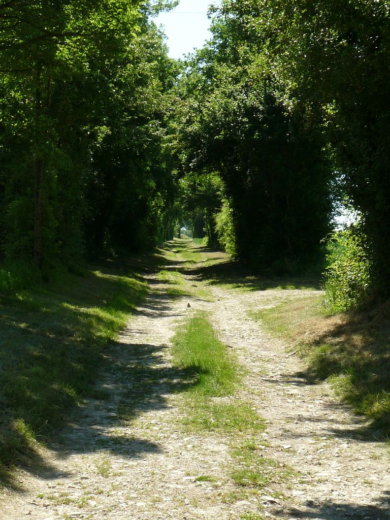 via Agrippa Saintes-Limoges at St-Genis-d'Hiersac, France